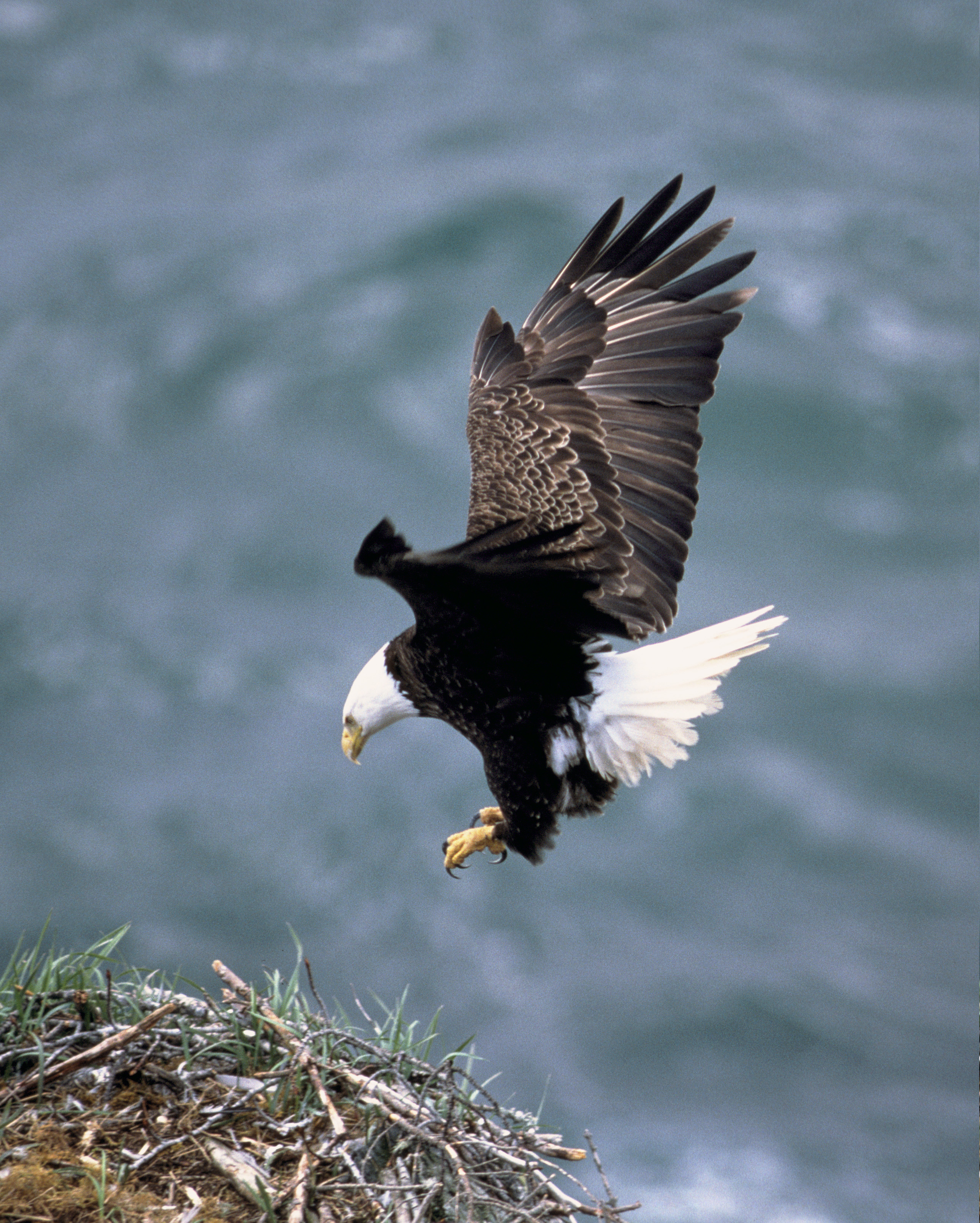 Haliaeetus leucocephalus (bald eagle) landing into his nest. Bald eagles generally lay 2 to 3 eggs in a large nest made of sticks and smaller twigs in tall trees or on rocky cliffs. Picture taken on Kodiak Island.